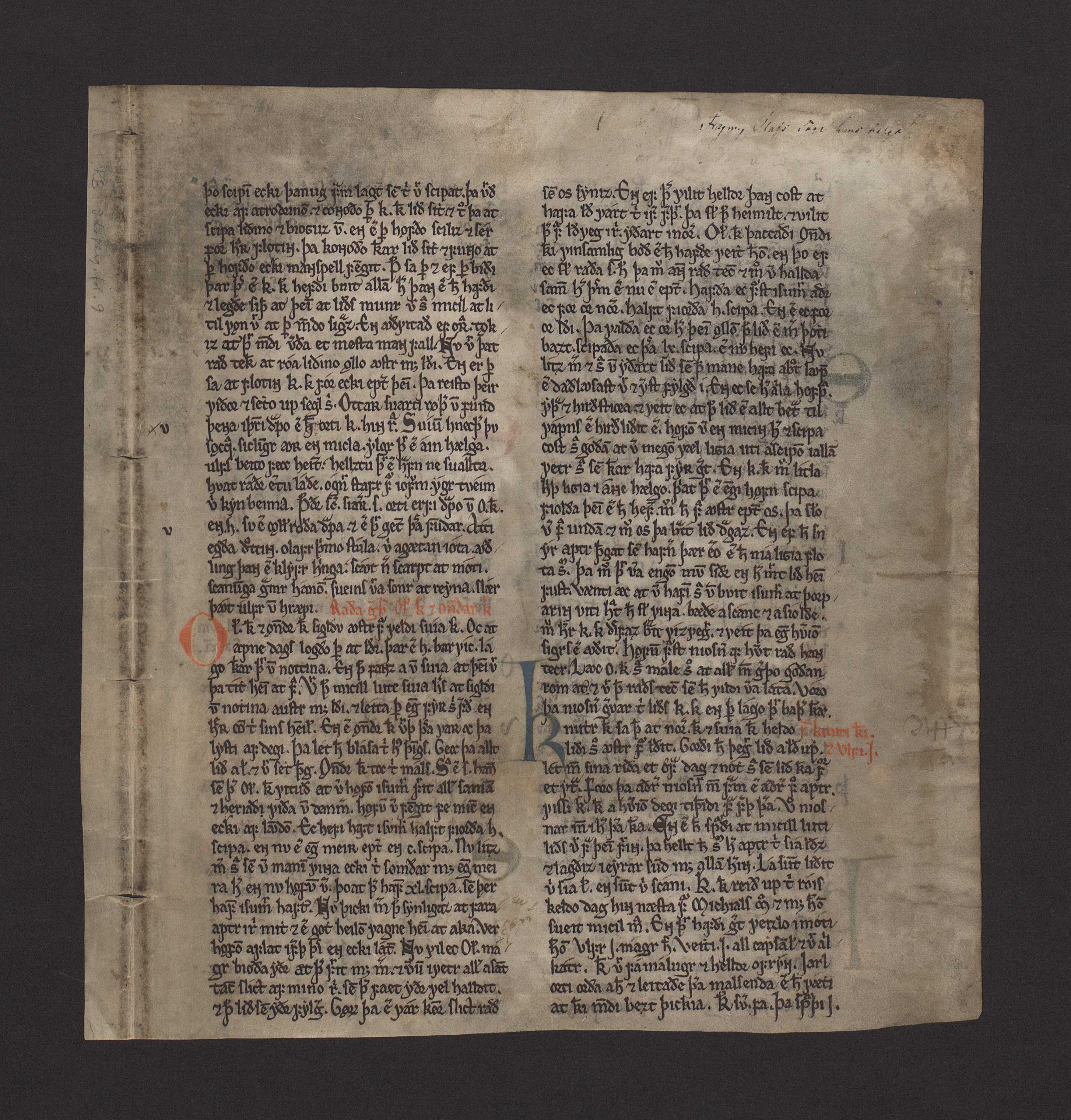 Kringlublaðið [the Kringla leaf] is a vellum manuscript leaf, dated c. 1260, the only one to survive from a manuscript called Kringla that was destroyed in the 1728 great fire of Copenhagen. Kringla was well known as the best manuscript of the great set of historical sagas known as Heimskringla, written by the thirteenth-century writer and statesman Snorri Sturluson (1178-1241). The leaf was found in the Royal Library in Stockholm, and is likely to have been in Stockholm from the late seventeenth century. During his state visit in Iceland in 1975 King Carl Gustav XVI presented the manuscript leaf to the Icelandic people for preservation in the National Library. The text to be found on the leaf is from Óláfs saga helga [the saga of King Ólafur the Saint], the longest of Heimskringla's 16 sagas about the kings of Scandinavia.